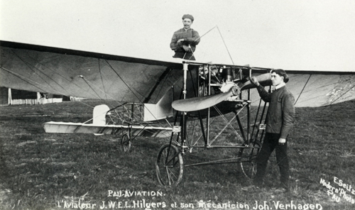 Johan Hilgers, Ede, first airplane flight in the Netherlands 1910